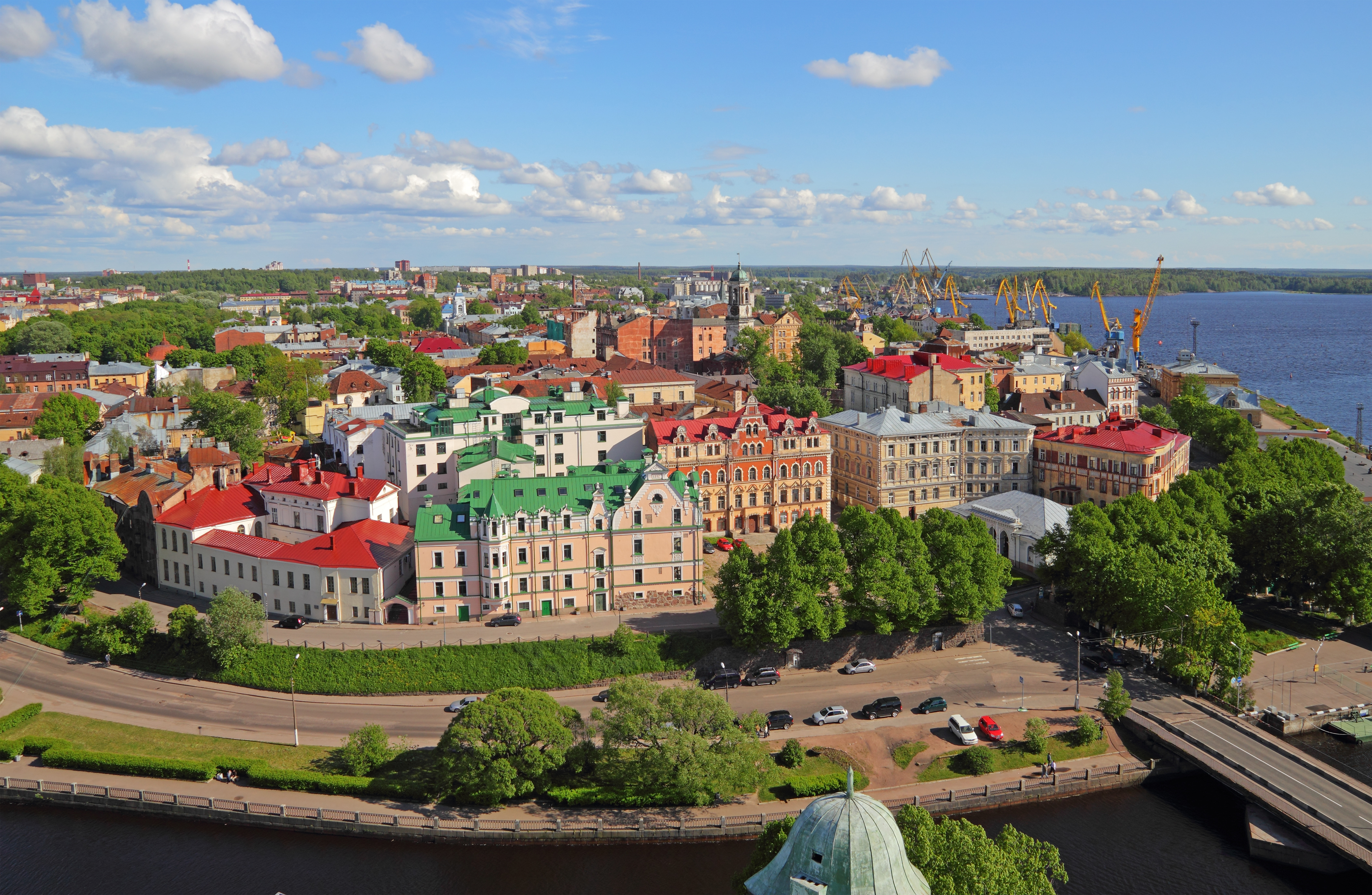 Vyborg (former Viipuri), Leningrad Oblast, Russia. Views from the Olaf Tower of the Vyborg Castle.